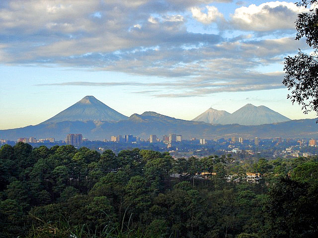 View of Guatemala City with the "Agua", "Fuego", "Acatenango" volcanoes in the background